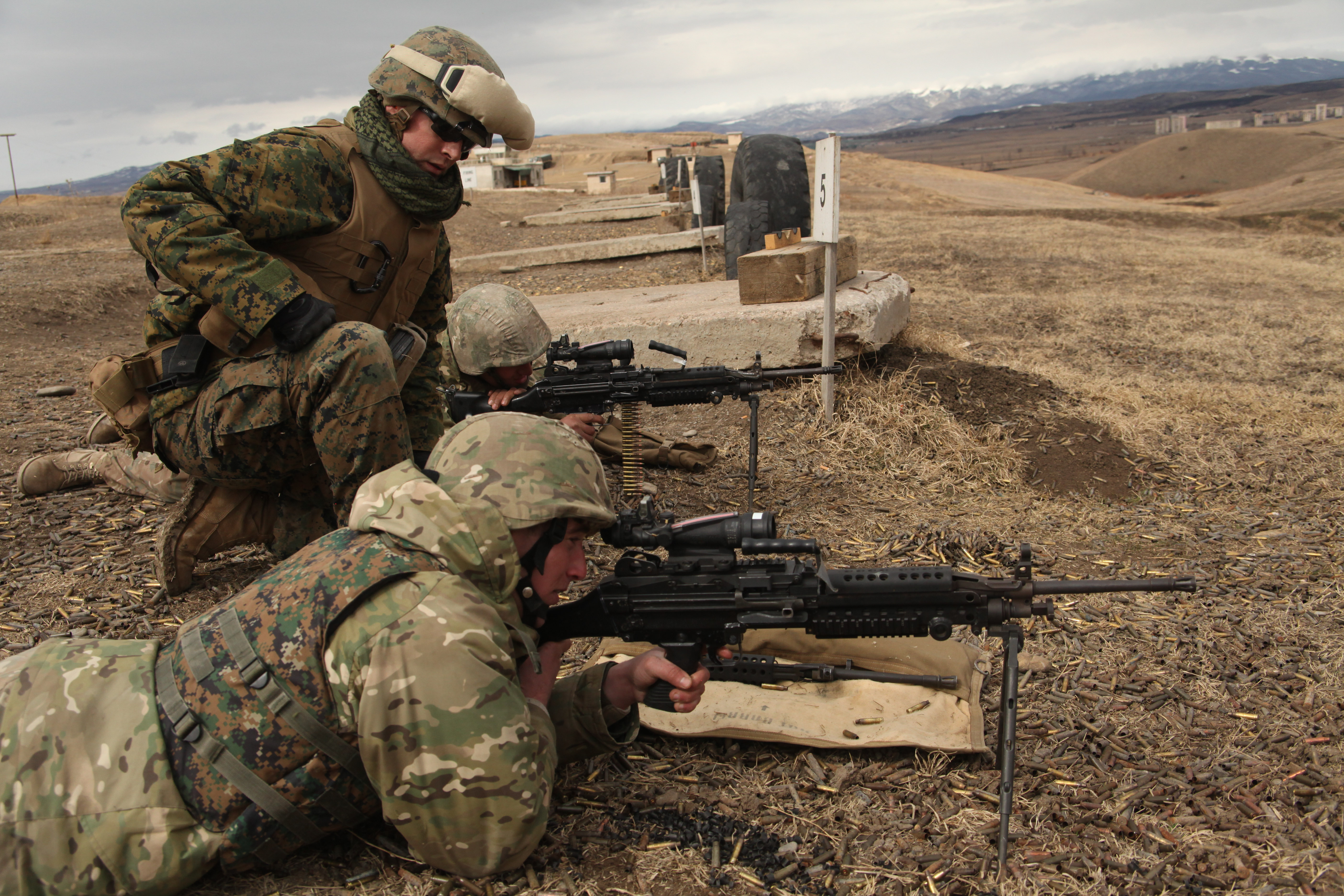 VAZIANI TRAINING AREA, Georgia -Georgian soldiers from the 4th Infantry Brigade practice marksmanship skills while Marines with Special-Purpose Marine Air-Ground Task Force Black Sea Rotational Force act as range coaches during Exercise Agile Spirit on Vaziani Training Area in Georgia., Cpl. Paul D. Zellner II, 3/13/2012 1:12 AM